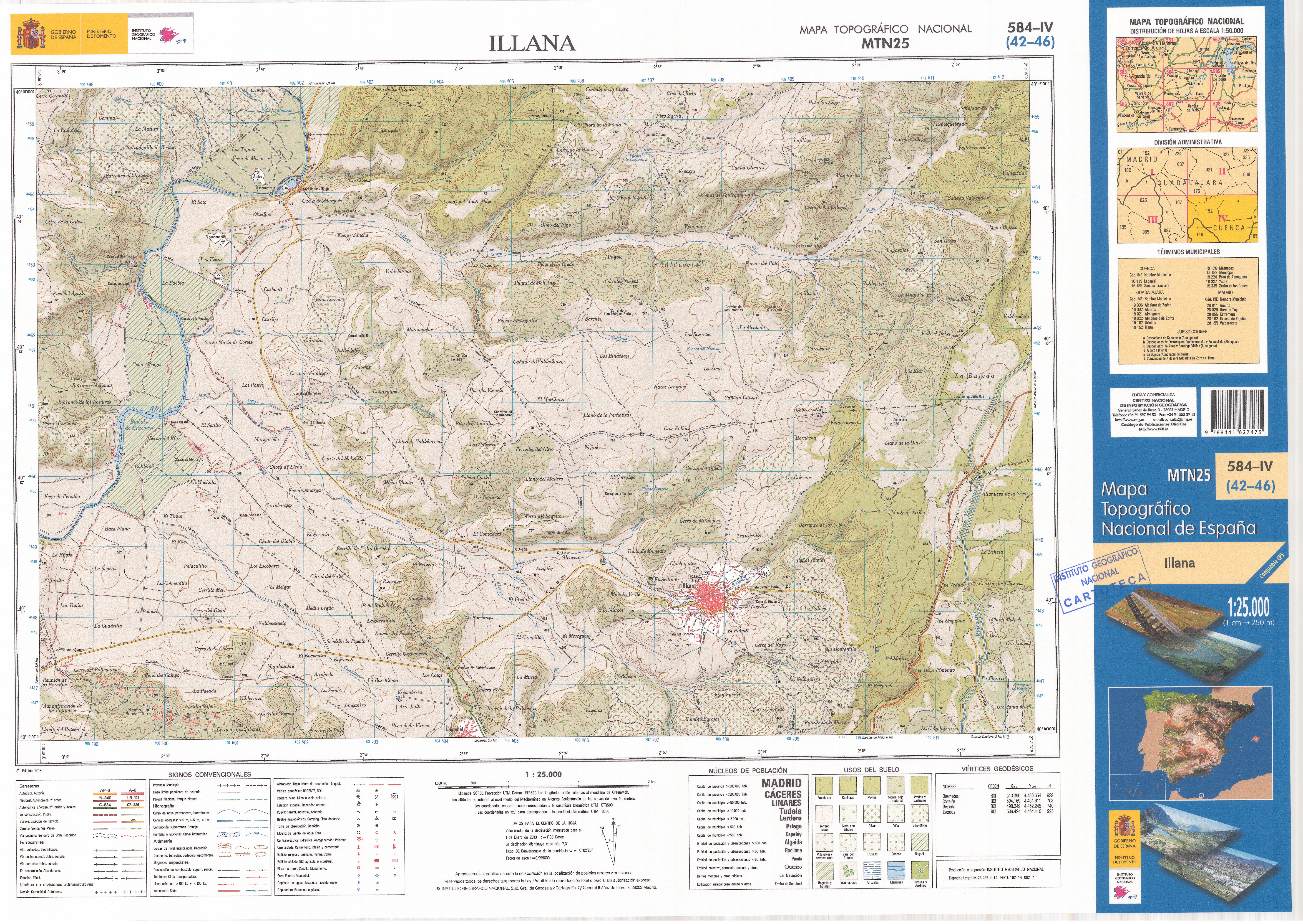 Fragment 0584c4 of the National Topographic Map of Spain in 2013 at a scale of 1:25000 printed and scanned with a resolution of 250 ppi. It shows Illana.